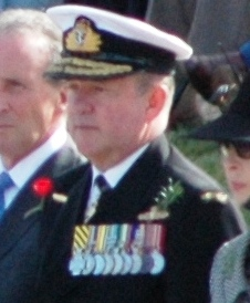 Russ Shalders, Chief of Navy (Australia) is greeted by Prime Minister of Australia Kevin Rudd at the 2008 National Anzac Day commemoration, Australian War Memorial, Canberra, Australian Capital Territory. Persons (left to right): unknown man and woman (faces obscured); Jon Stanhope, Chief Minister of the Australian Capital Territory (blue necktie); unknown woman; Kevin Rudd, Prime Minister of Australia (arm held out); unknown man (face obscured); unknown man (back to camera); unknown woman (hat); unknown man (blue necktie); Russ Shalders, Chief of Navy (Australia); unknown woman (hat)